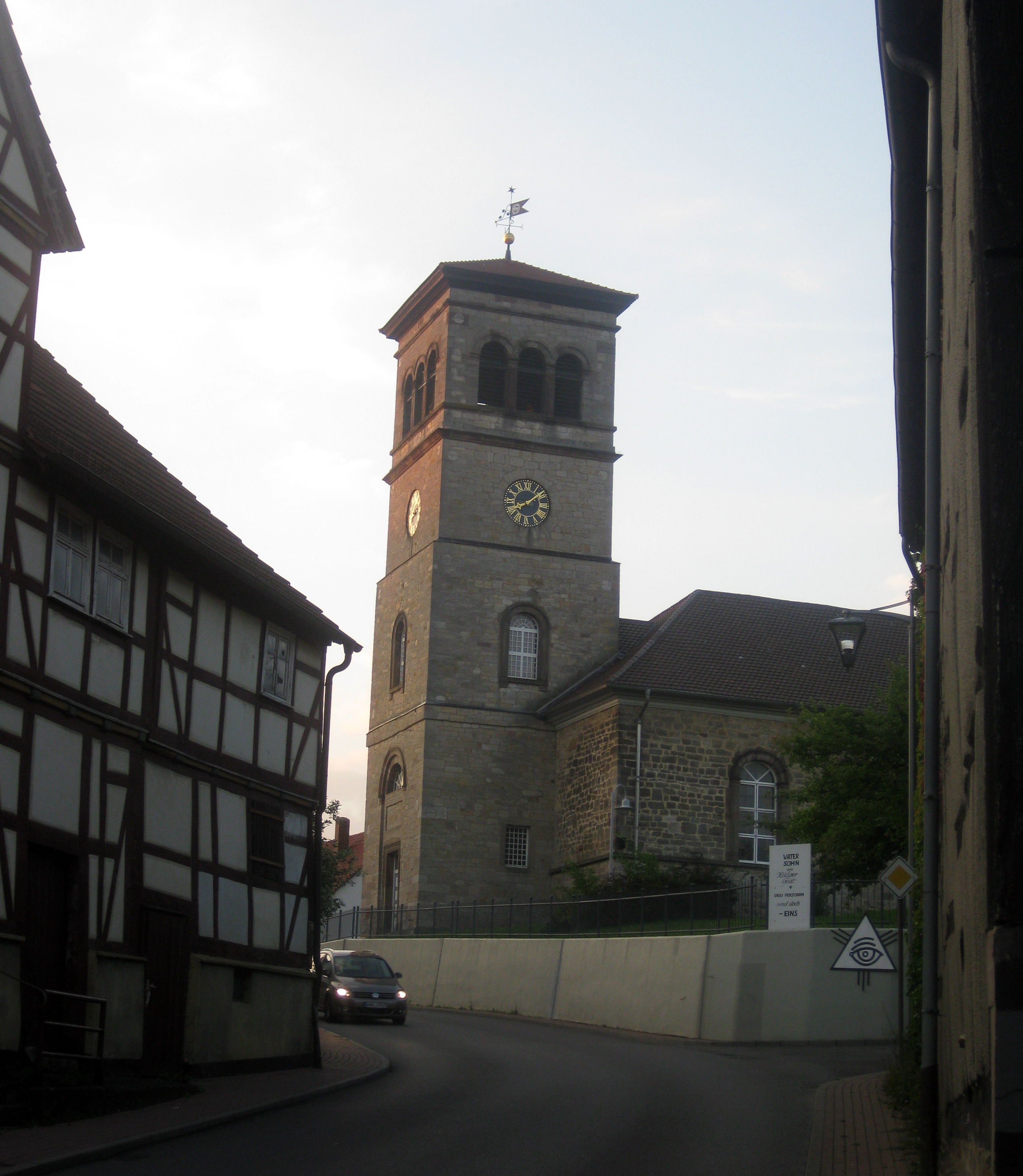 Protestant church in Lohfelden-VollmarshausenThis is a photograph of an architectural monument.It is on the list of cultural monuments of Landkreis Kassel